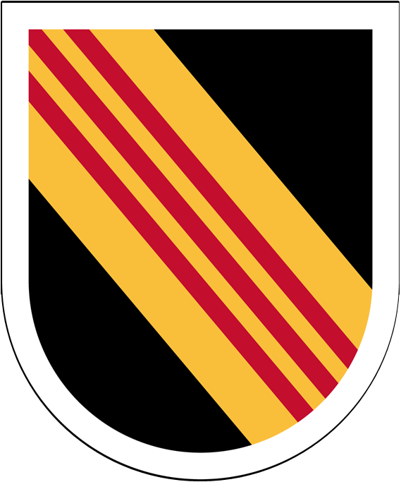 The Beret Flash of the 5th Special Forces group as approved on 25 November 2015. (TIOH Dwg. No. A-4-103)